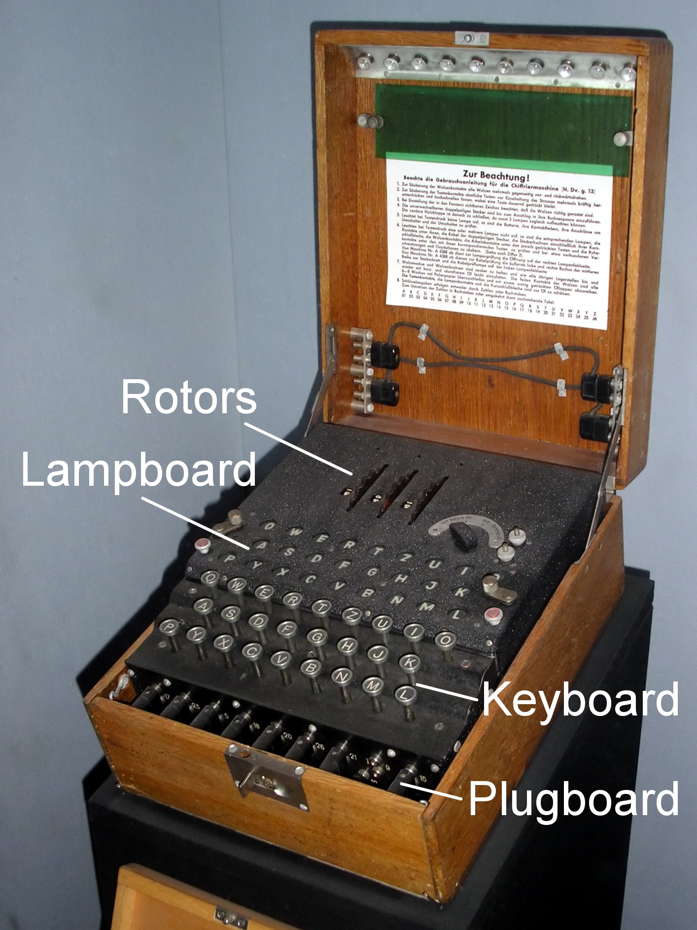 Enigma Machine at the Imperial War Museum, London.